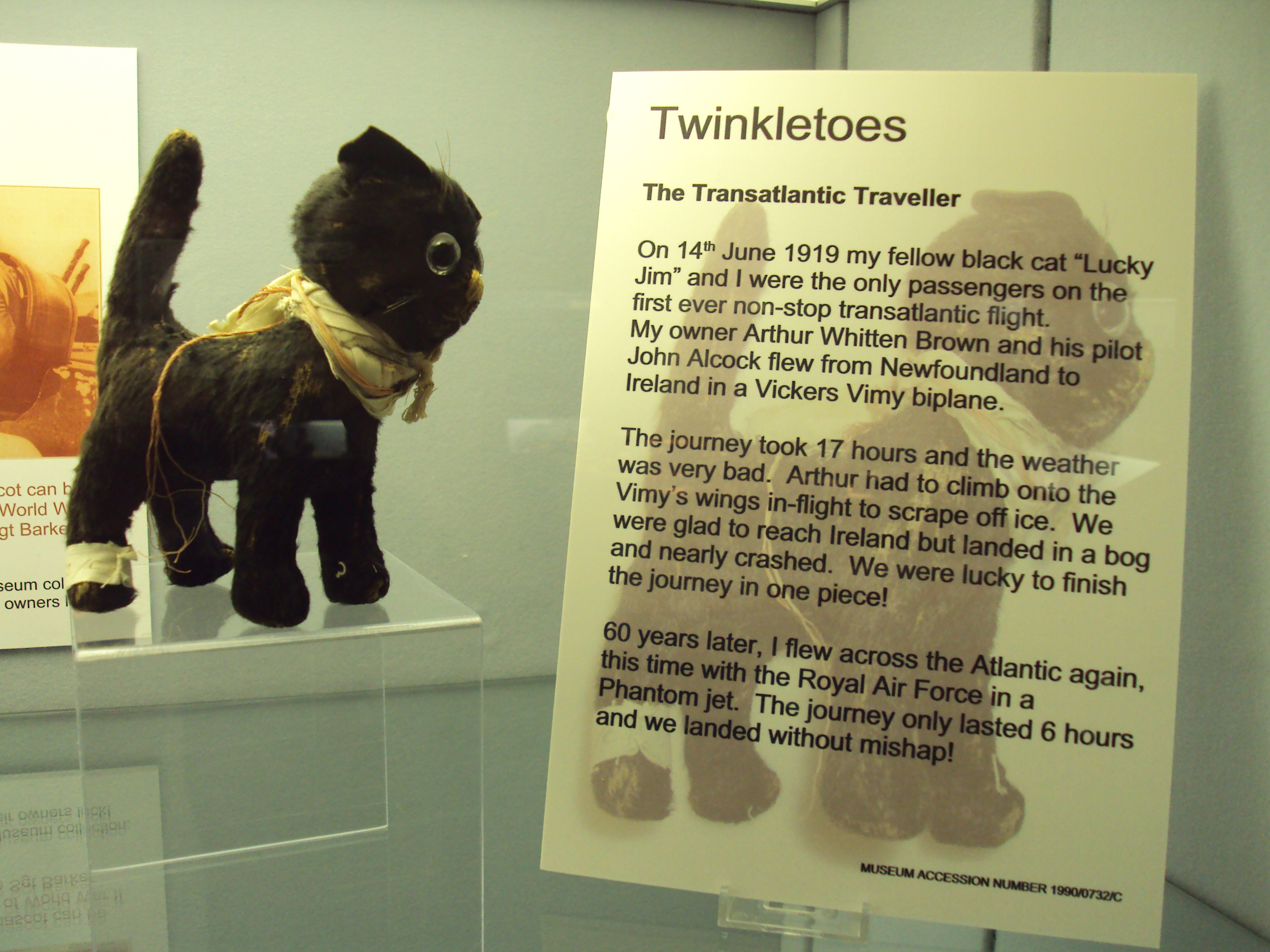 Twinkletoes, an air force officer's mascot. Photo taken at the RAF Museum Cosford, Shropshire, England.